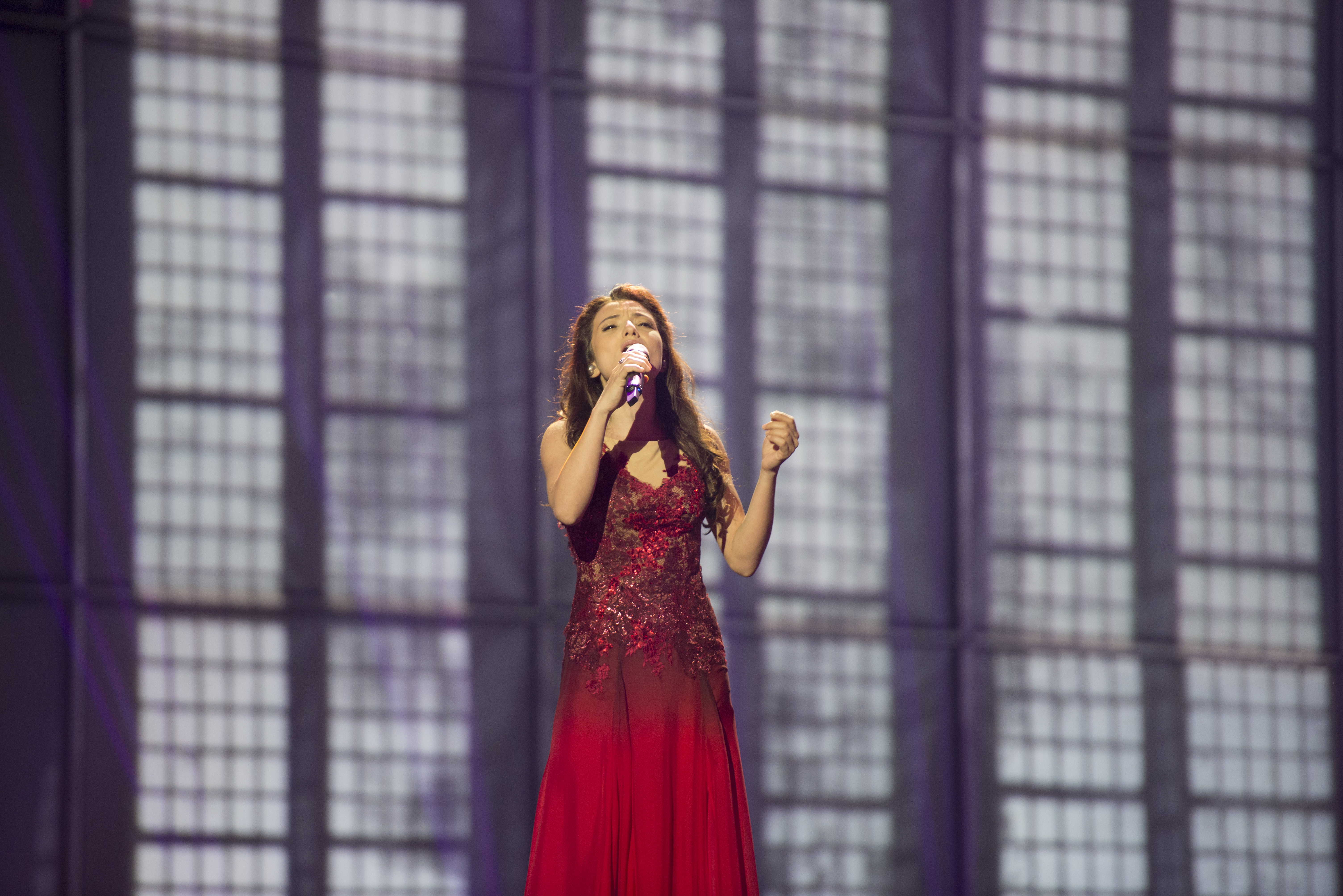 Dilara Kazimova representing Azerbaijan with the song "Start a Fire" during the first dress rehearsal of the first semi final of the Eurovision Song Contest 2014 Copenhagen. (Help translate this text)